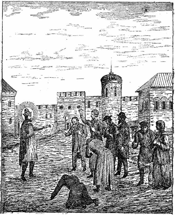 Illustration to Book of Revelation